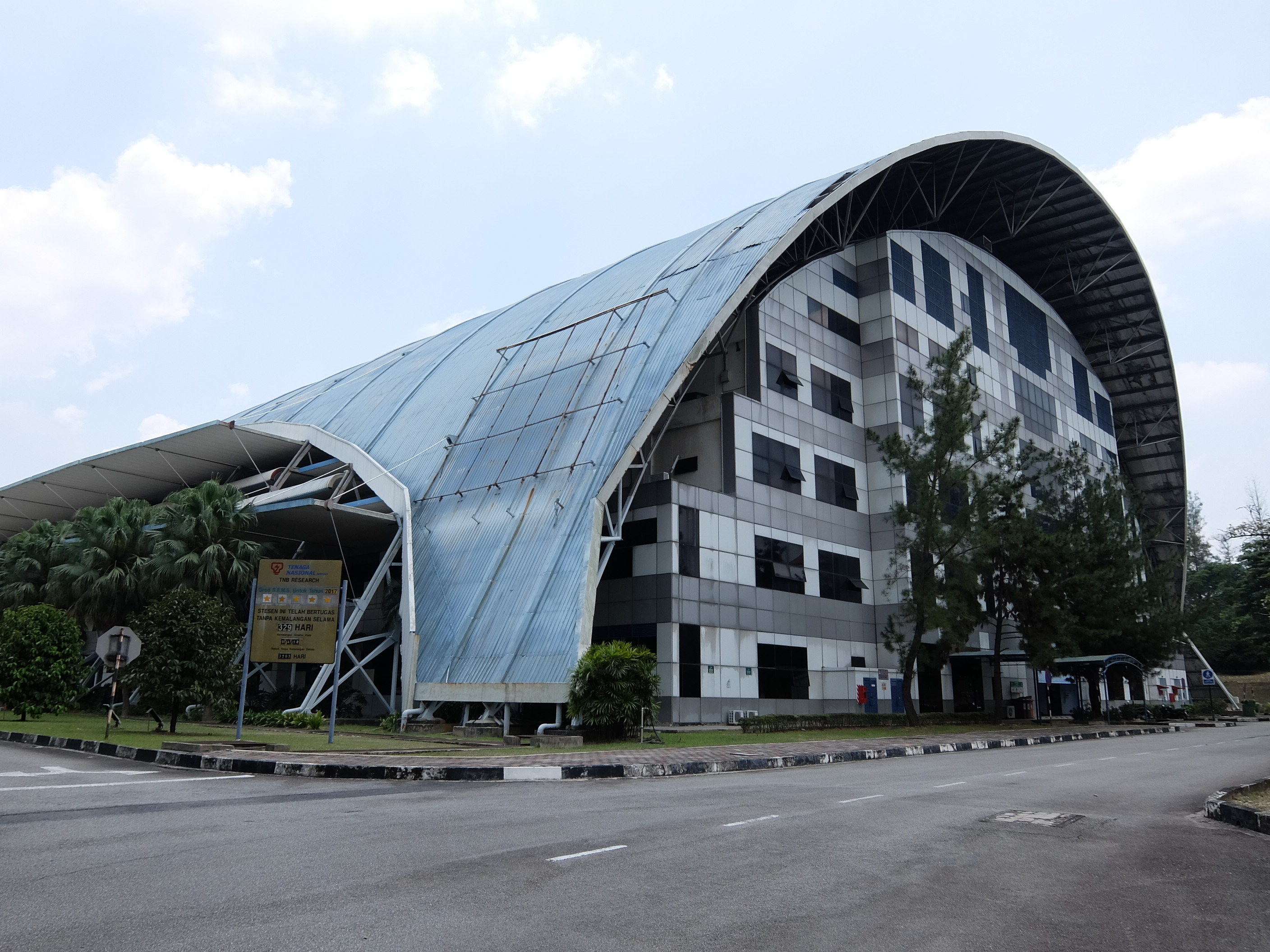 TNB Research, Kajang, Hulu Langat, Selangor, Malaysia